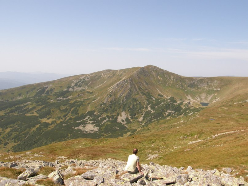 Brebeneskul